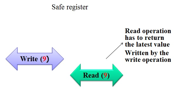 Safe register-no overalapping